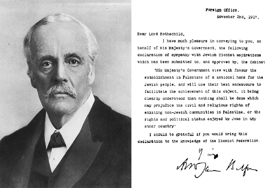 Portrait of Lord Balfour, along with his famous declaration